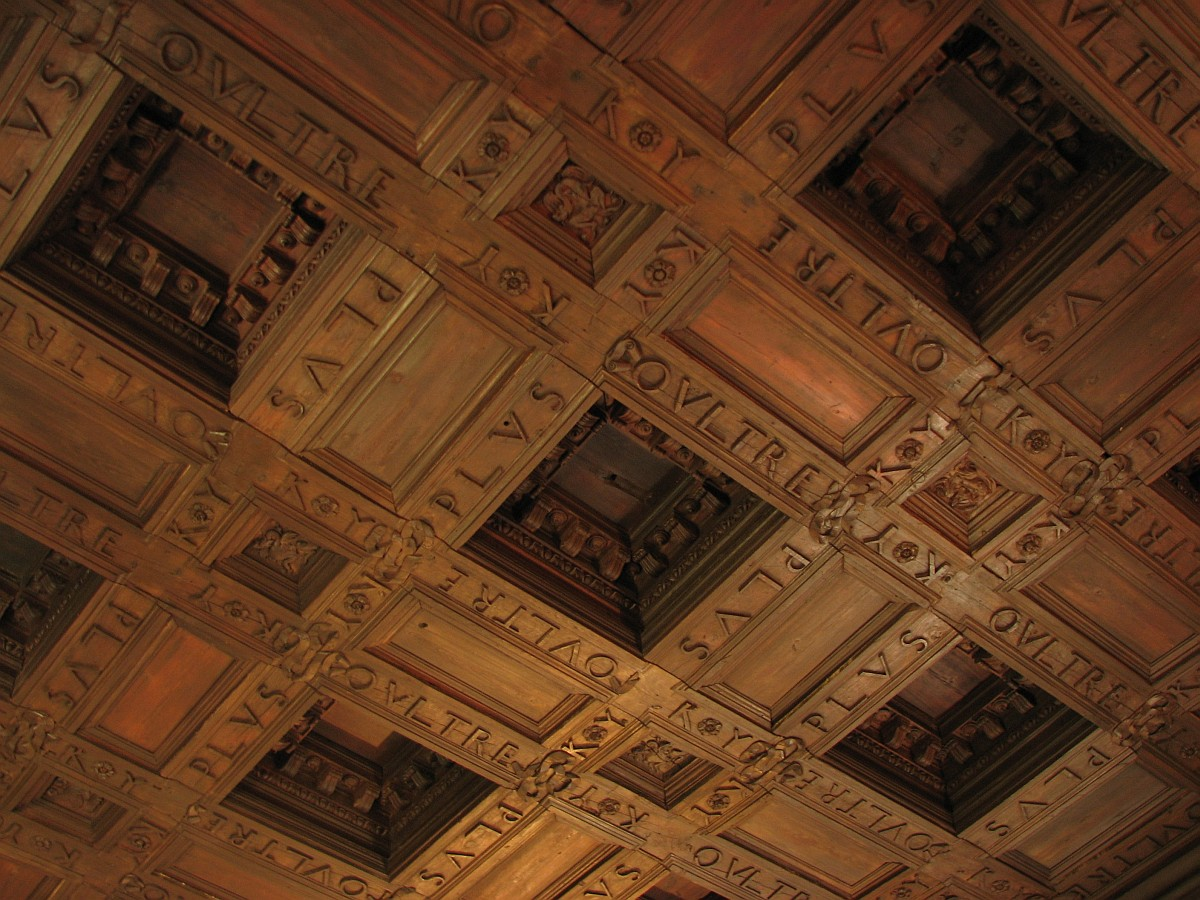 Wooden panelling in a palace at the Alhambra, Granada (Spain), showing the motto 'plus ultra' (in old French 'plus oultre'). Alhambra Granada